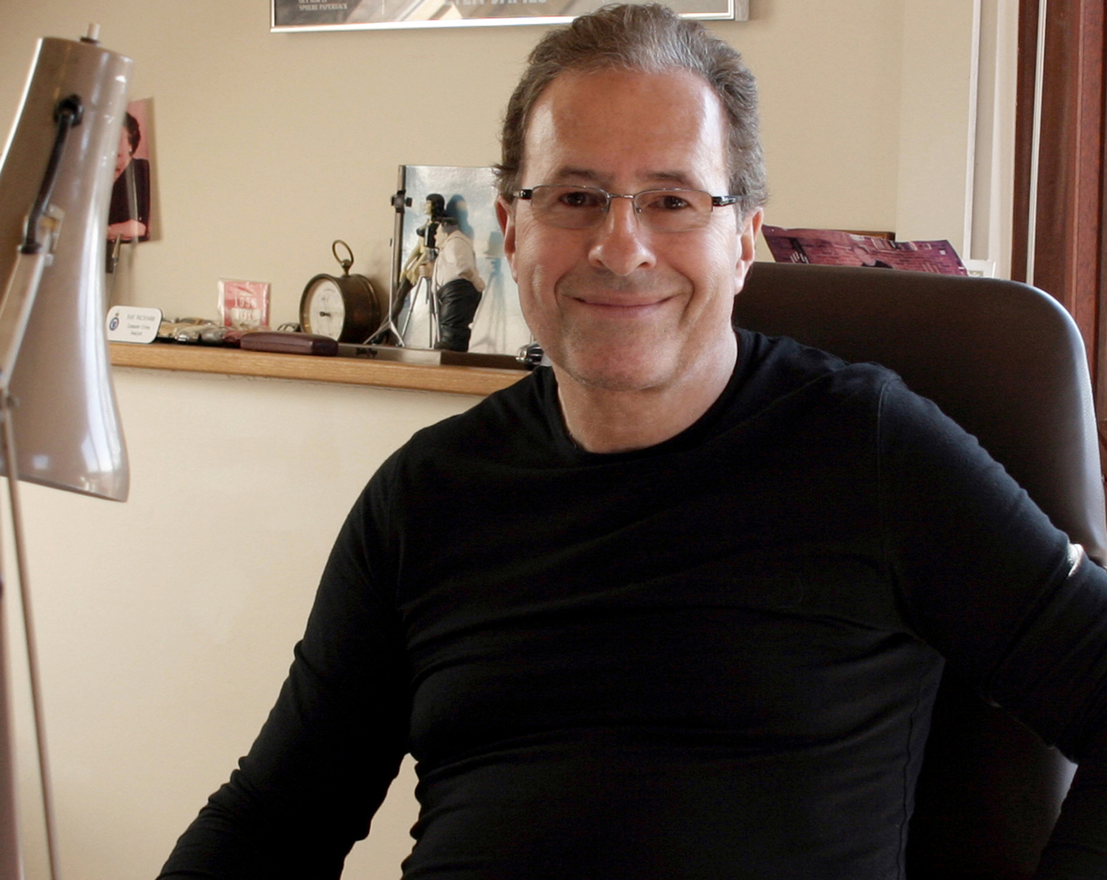 Peter James in his office